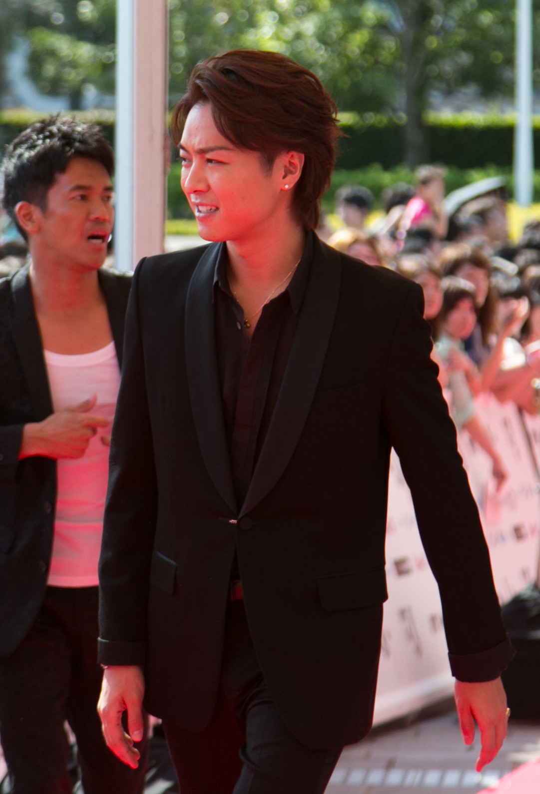 Exile members at the 2014 MTV Video Music Awards Japan